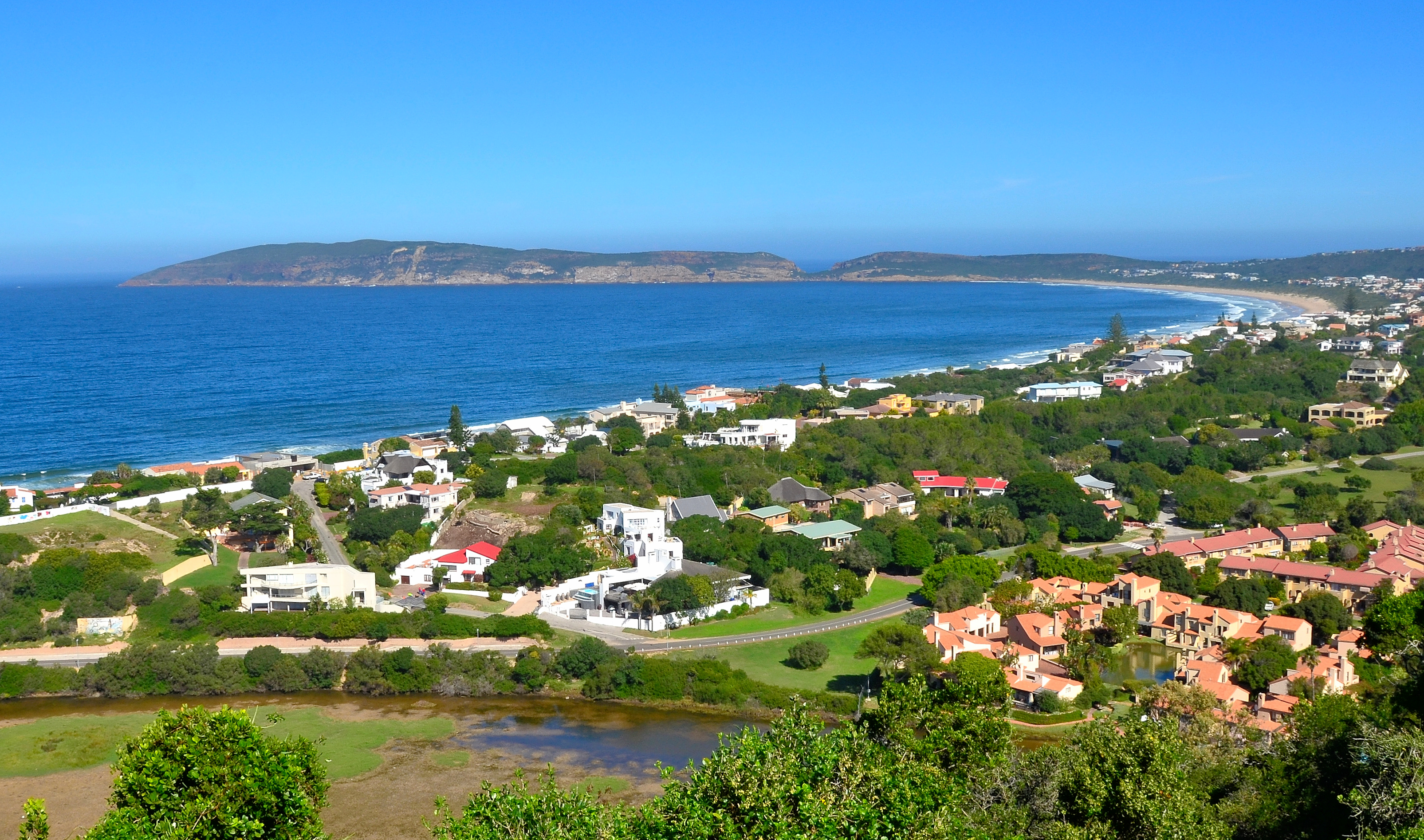 View from Signal Hill View Point towards Robberg, Plettenberg Bay